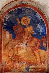 Resurrection of Christ Church in Dedebalci Fresco